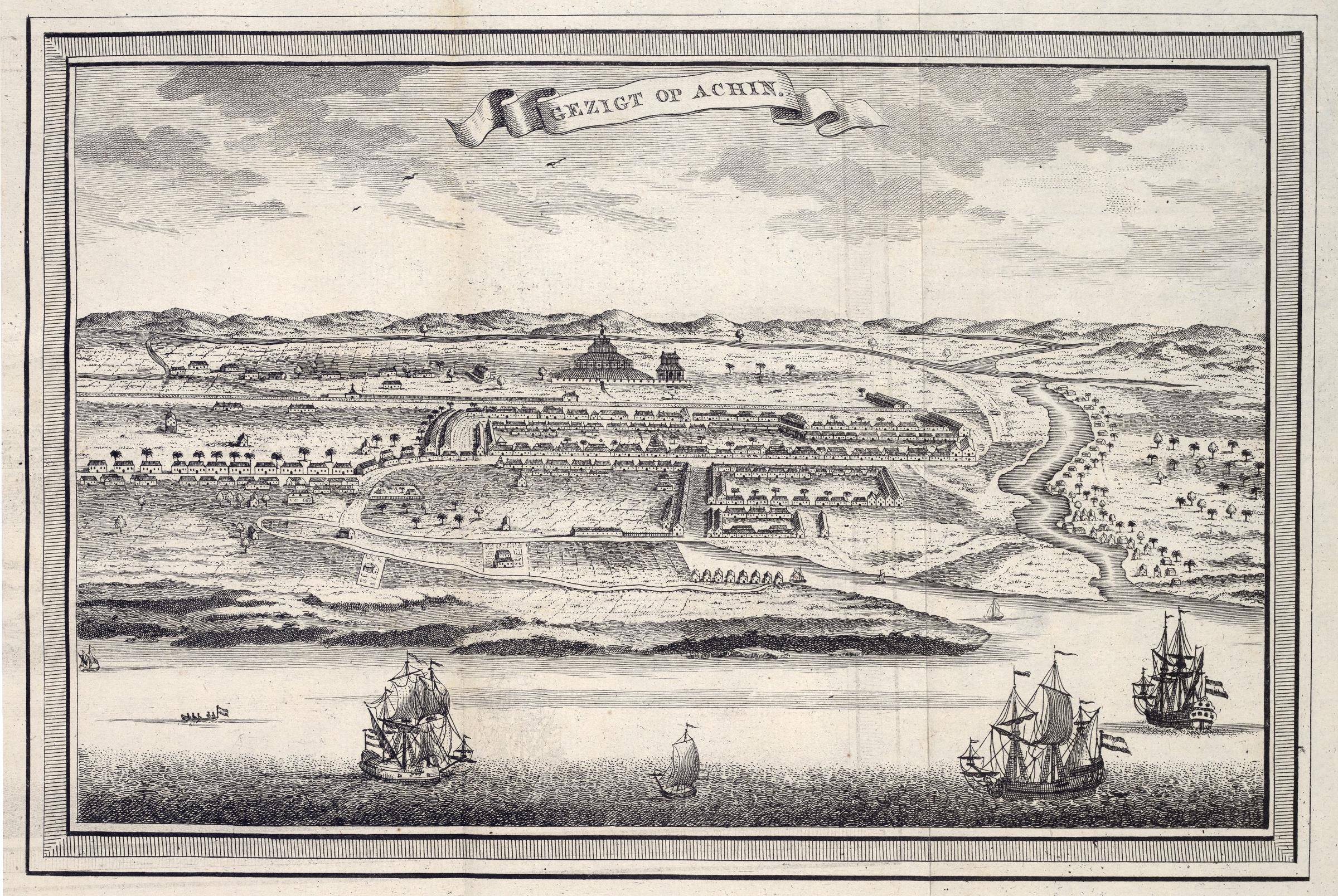 View of Achin. Gezigt op Achin. Cf. Nationaal Archief, The Hague, inv. nr. VELH0619.22, Atlas Van Stolk, Rotterdam, inv. nr. top1076 and Scheepvaartmuseum, Amsterdam, inv. nr. SNSM_b0032(109)06[kaart097].